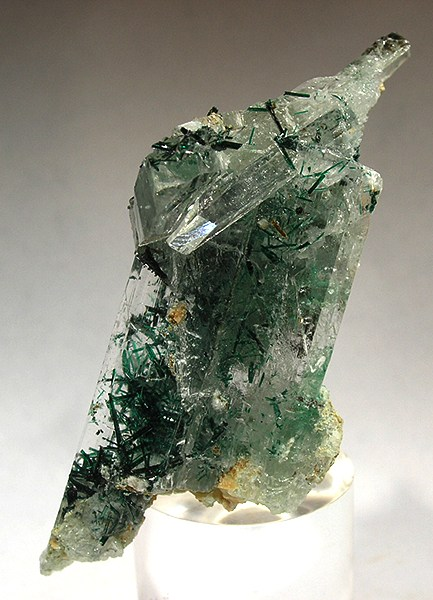 Atacamite Locality: Lily Mine (Lilly Mine), Pisco Umay, Ica Department, Peru (Locality at ) An absolutely glass-clear crystal of gypsum 4 cm in length shows off the bright crystals of atacamite inside. These are noticeably scarcer on the market than they once were, when they hit the cover of the Min Record and made quite a splash a few years ago 7 x 3 x 2.7 cm